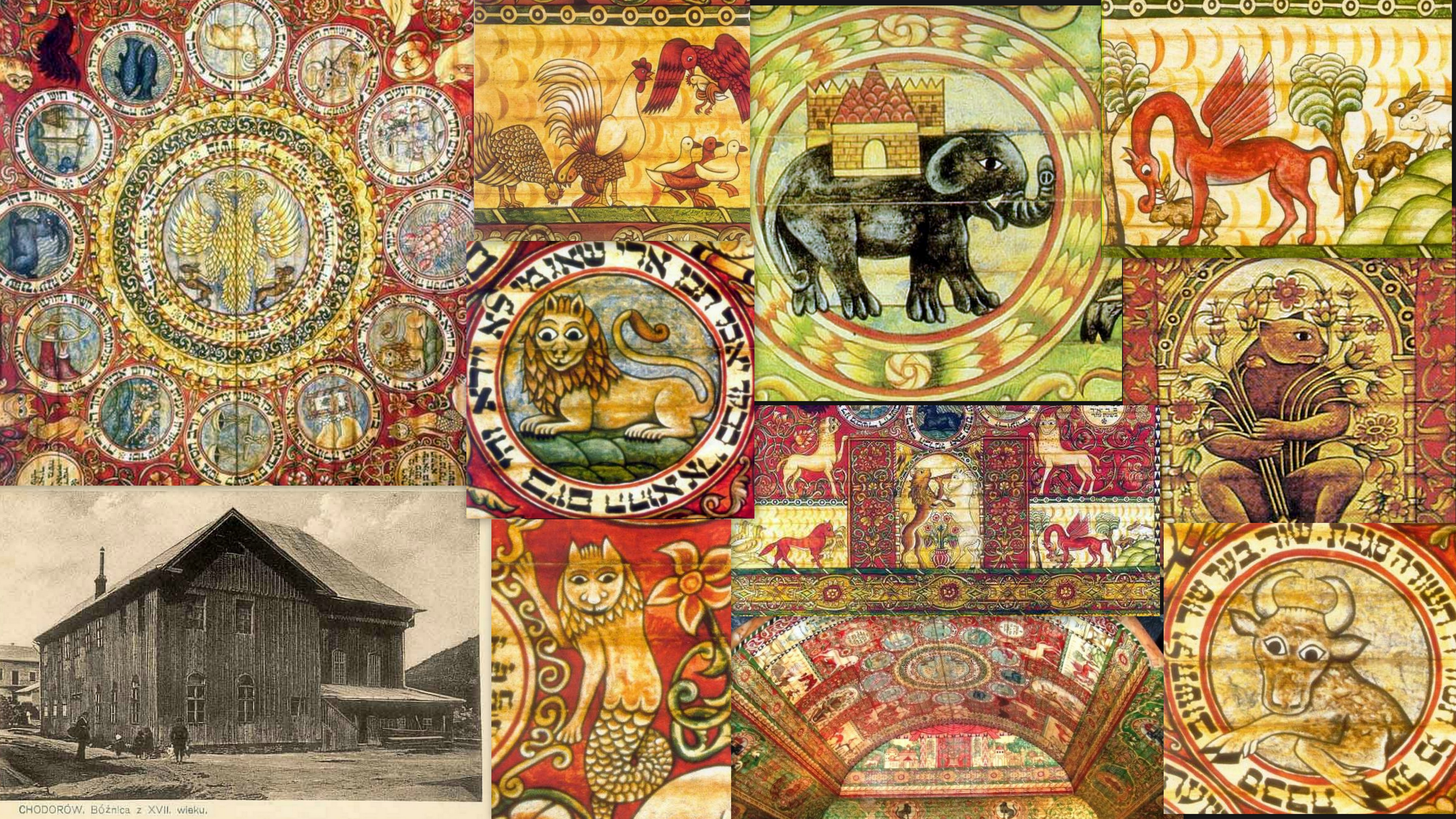 Synagogue in Khodoriv. Author: Israel Ben Mordechai Lisnicki (1652), reworked by Isaak ben Yehuda Leiba (1714)